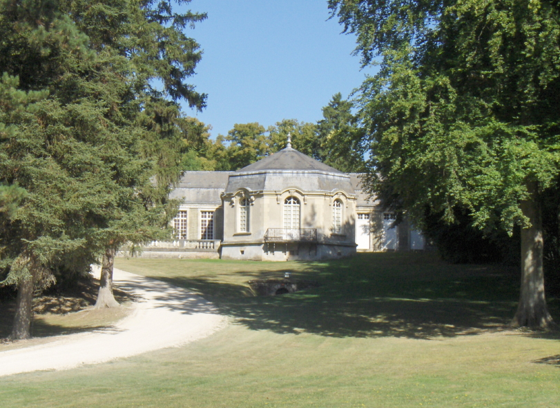 Maison de Sylvie, XVIIth cent., park of the château de Chantilly